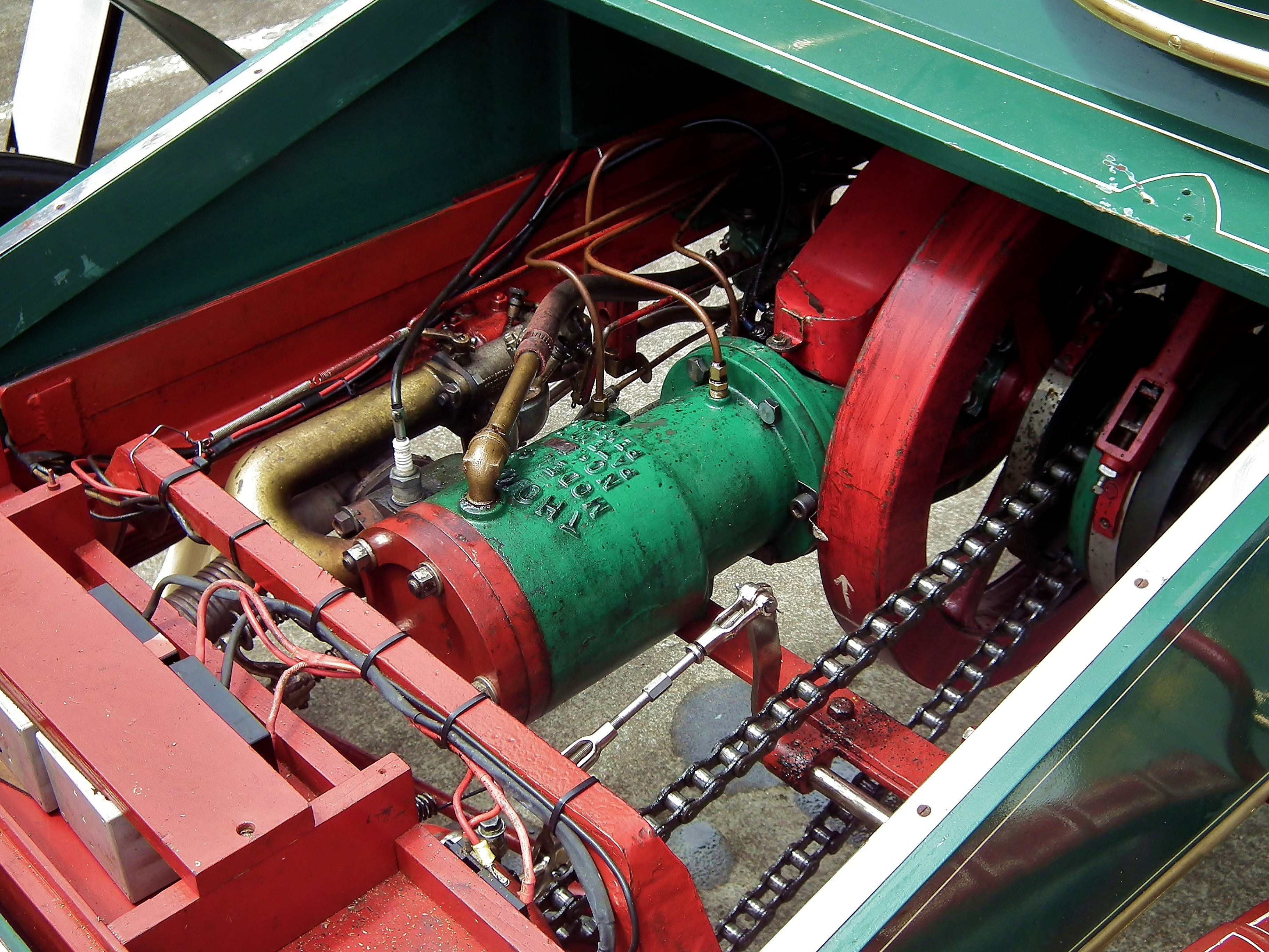 1902 Thomas Model 17 tonneau engine. The oldest known surviving example of the E. R. Thomas Motor Company in the world, and believed to be the car used by E. R. Thomas Jnr to convey his bride on their honeymoon. Taken at the 2012 New South Wales All American Day, held at Castle Towers Shopping Centre, Castle Hill, Sydney.